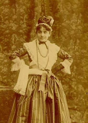 Eleonora Duse (1858–1924) in "La Locandiera"